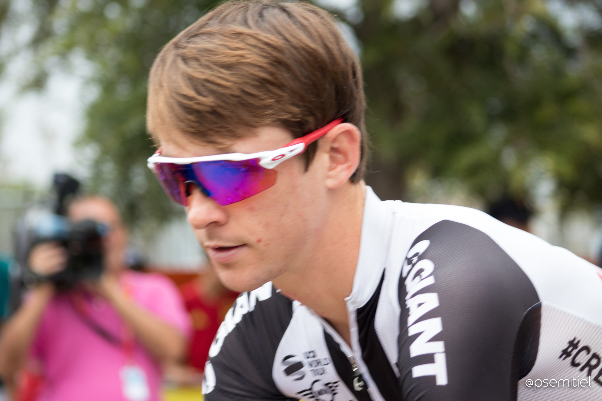 2017 Vuelta a España, Stage 10 Depicted person: Chad Haga – cyclist